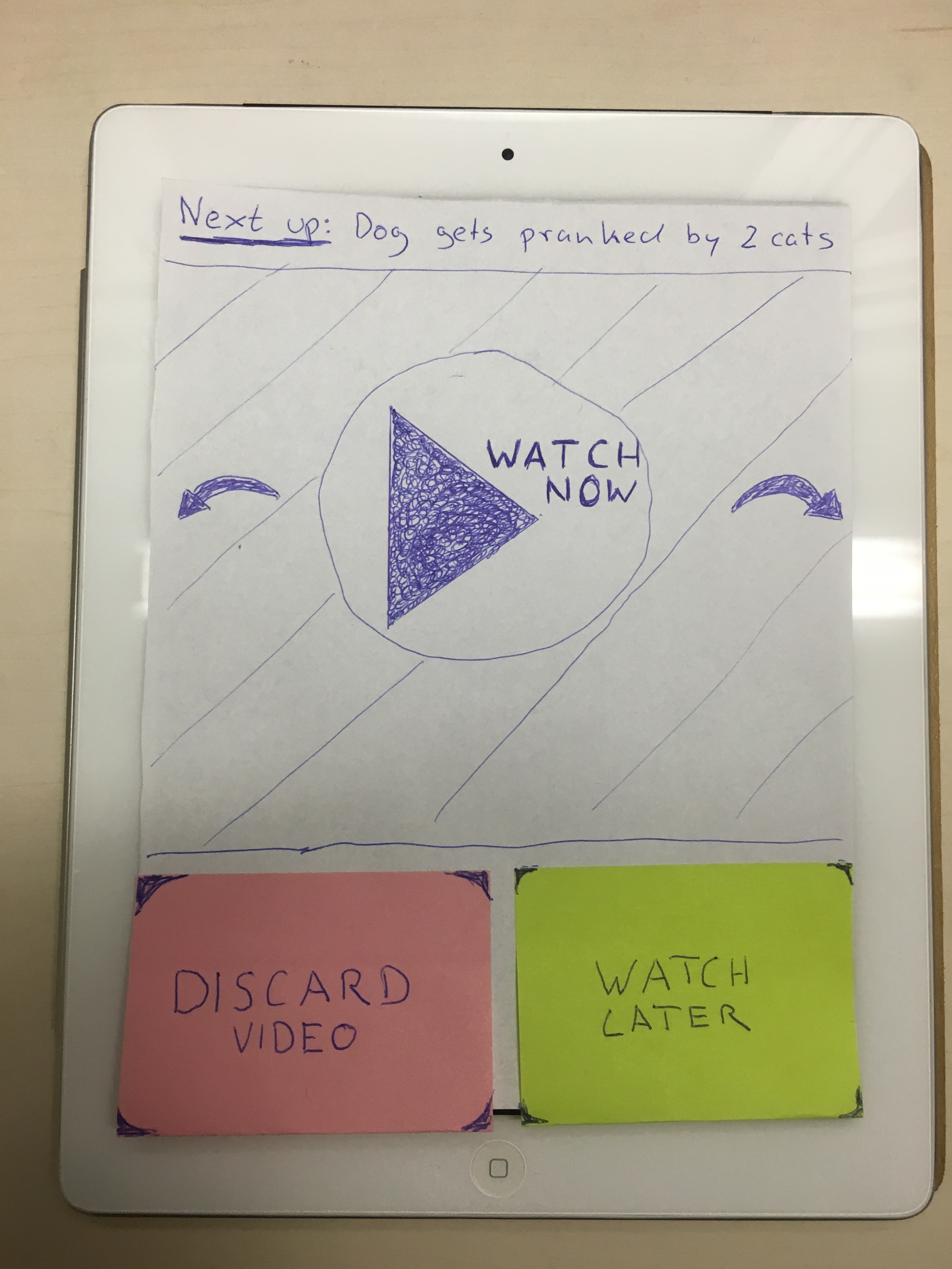 Paper prototype for a video selection app